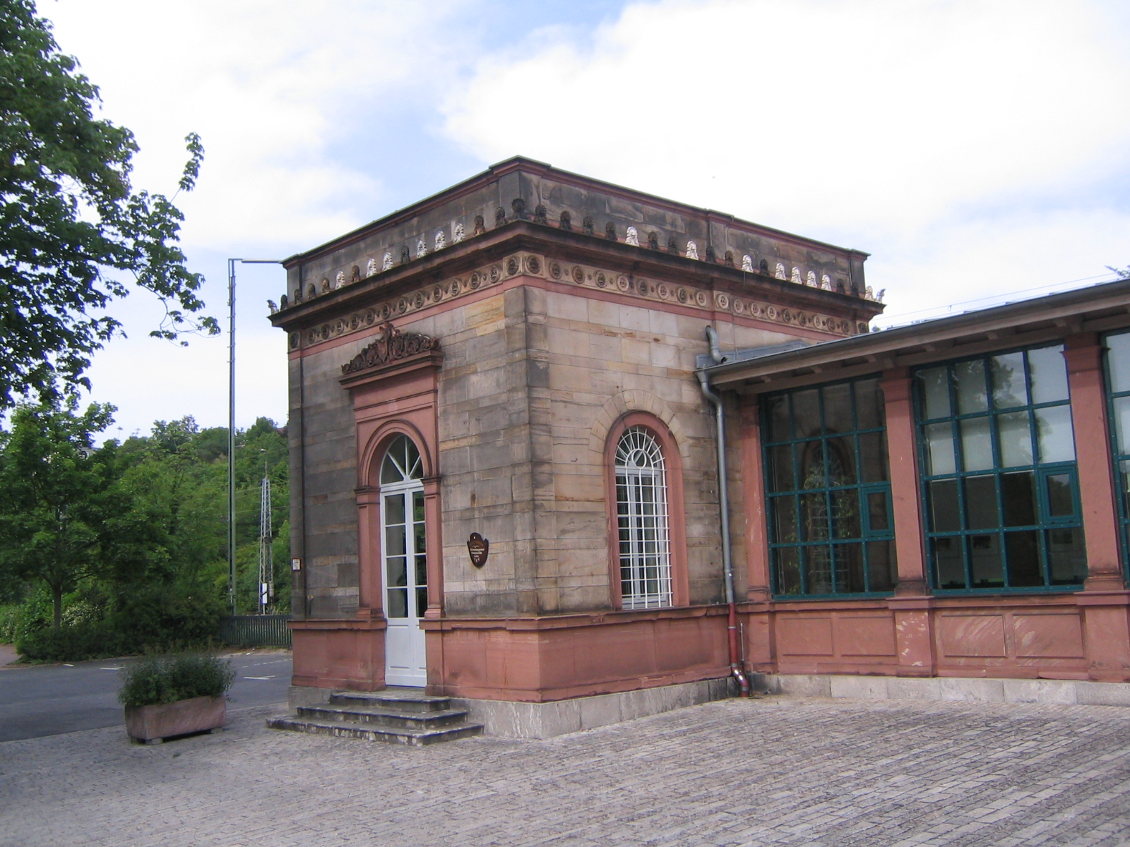 The King's Salon at Veitshöchheim station; on the right a section of the covered walkway to the station building.